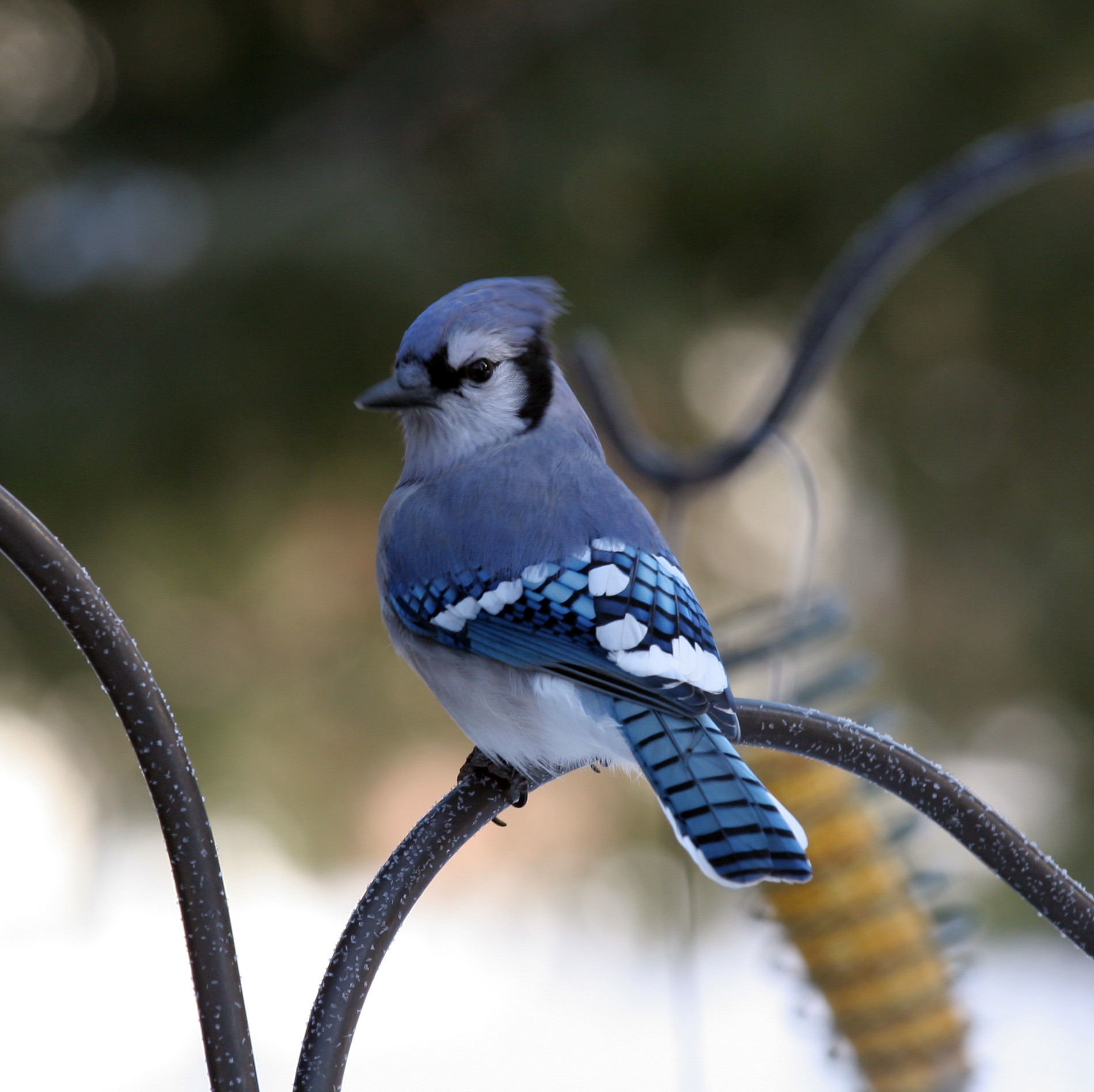 frosty day